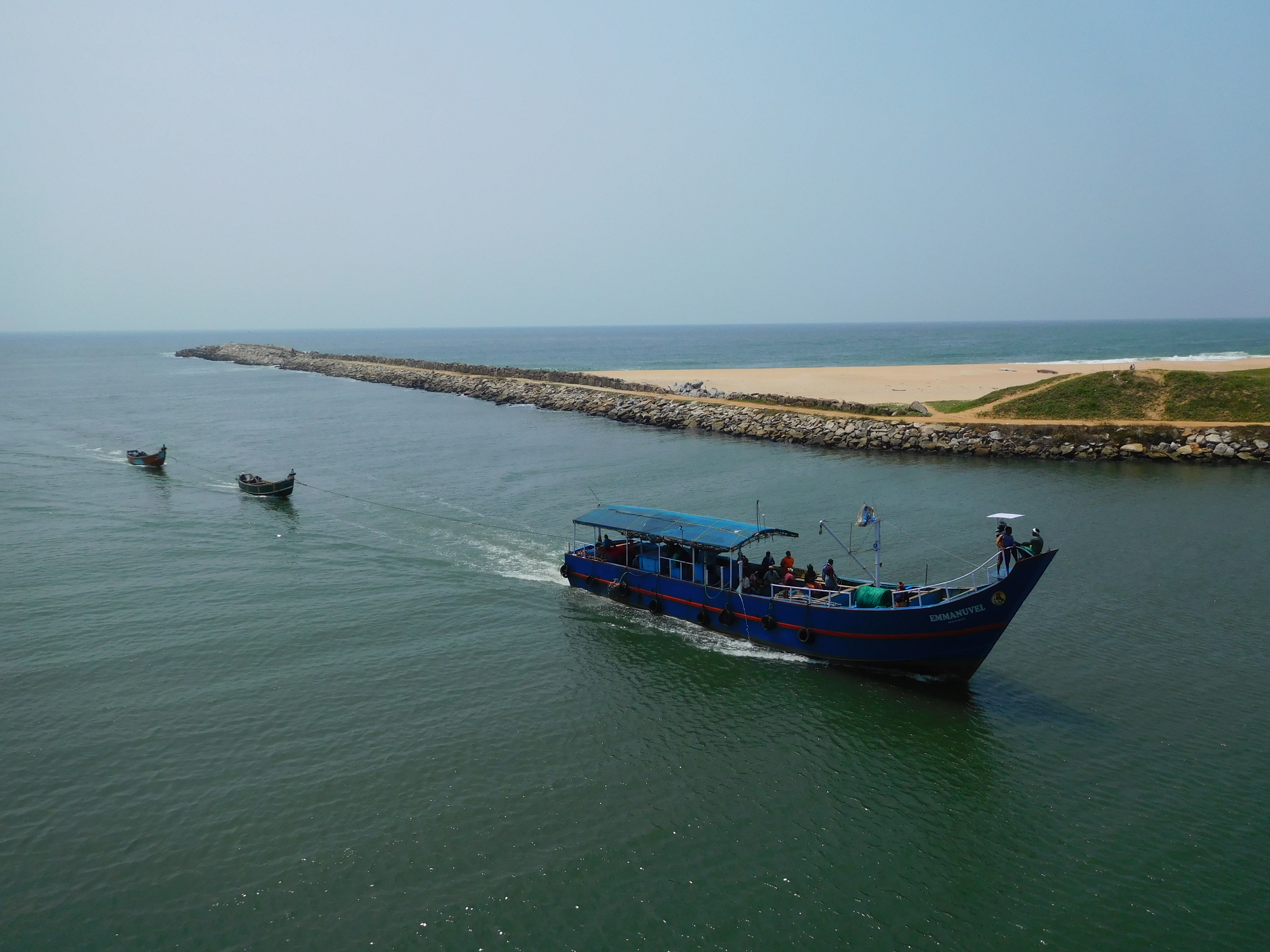 A boat at Kadinamkulam lake, Kerala, India